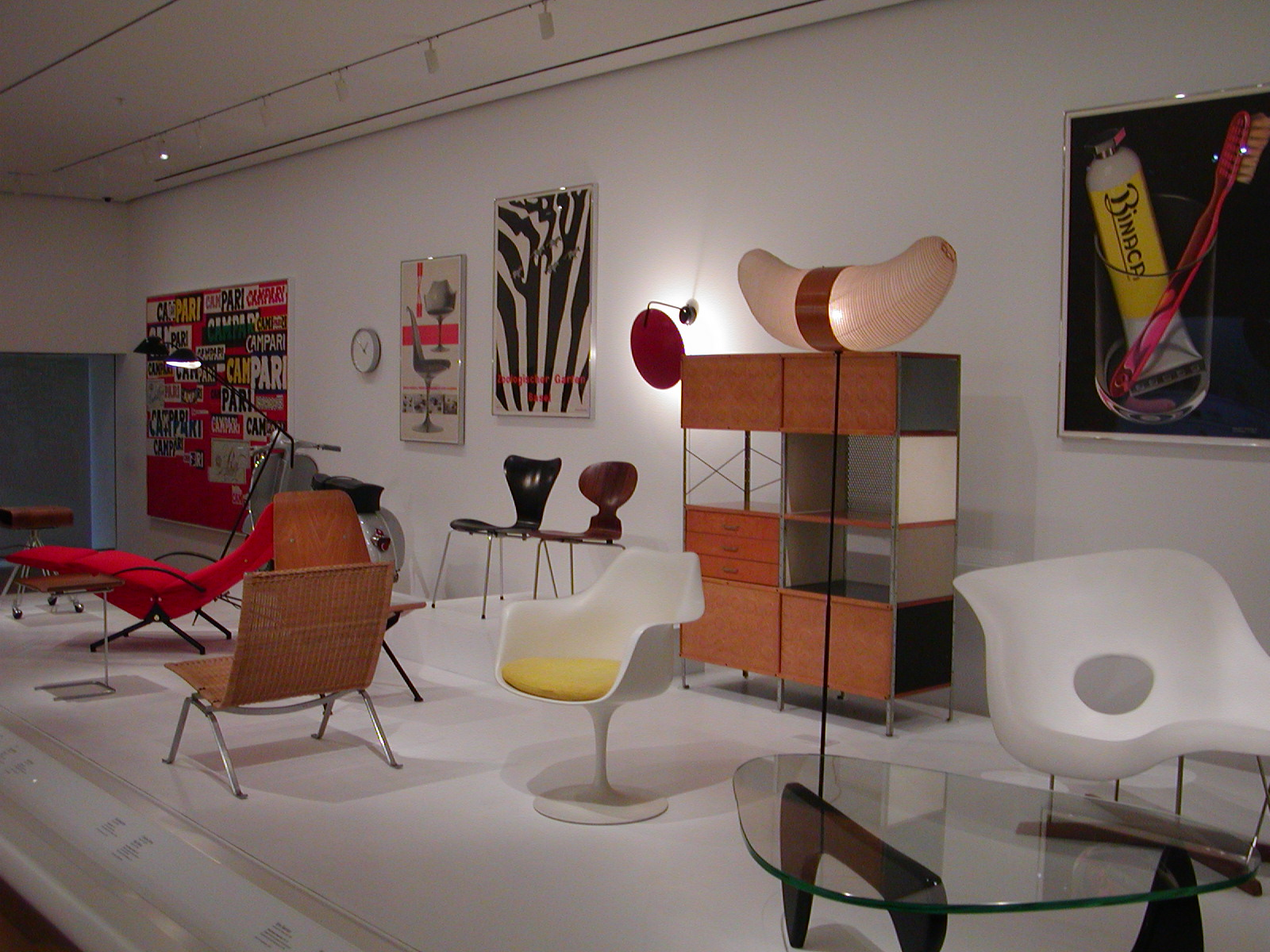 Chairs on display at MOMA in New York City. In the background Modell 3107 in black and The Ant by Arne Jacobsen.